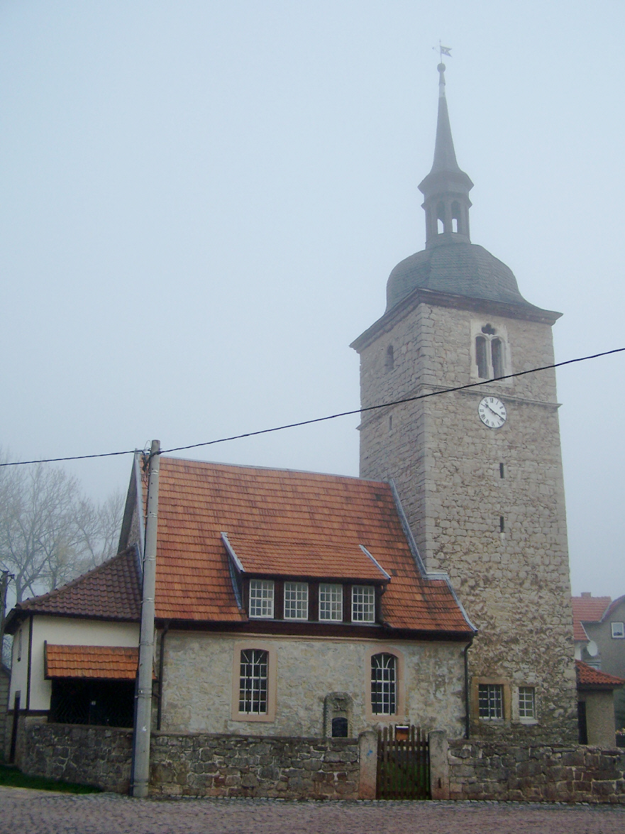 The church in Ettenhausen/Nesse.